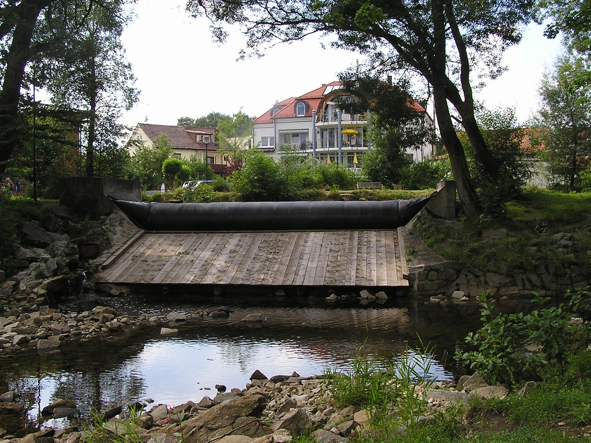 Tube weir at the Regen in Zwiesel